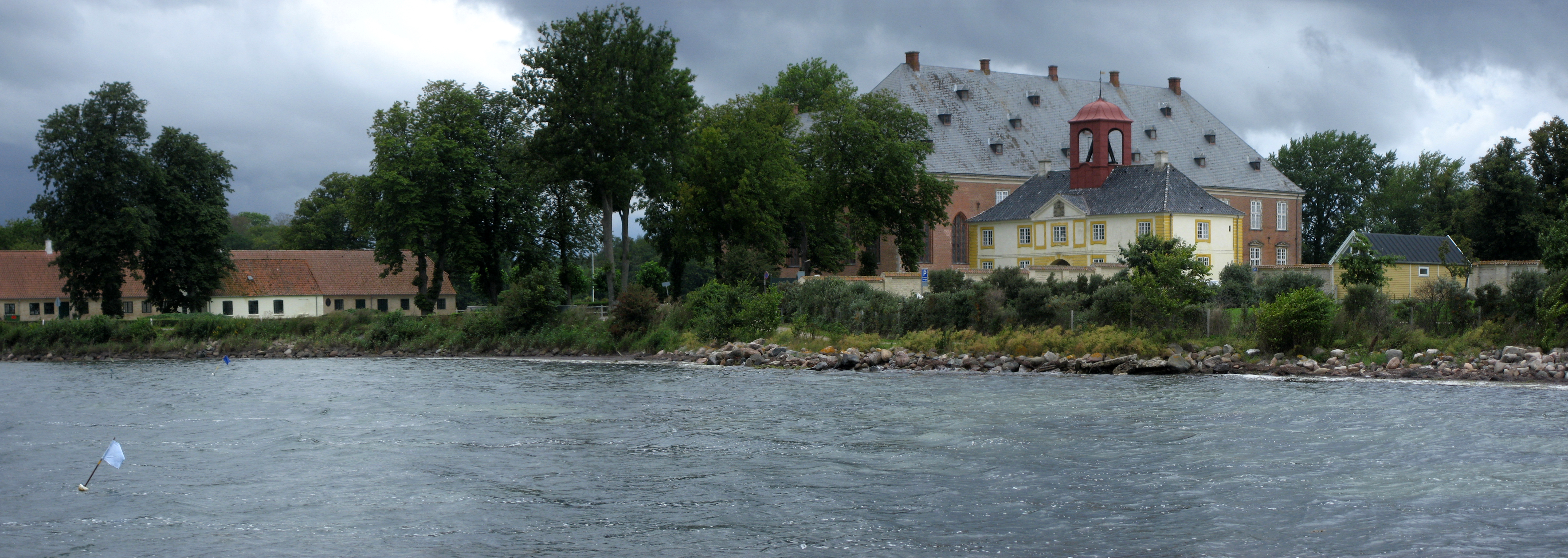 Valdemars Slot, view from pier